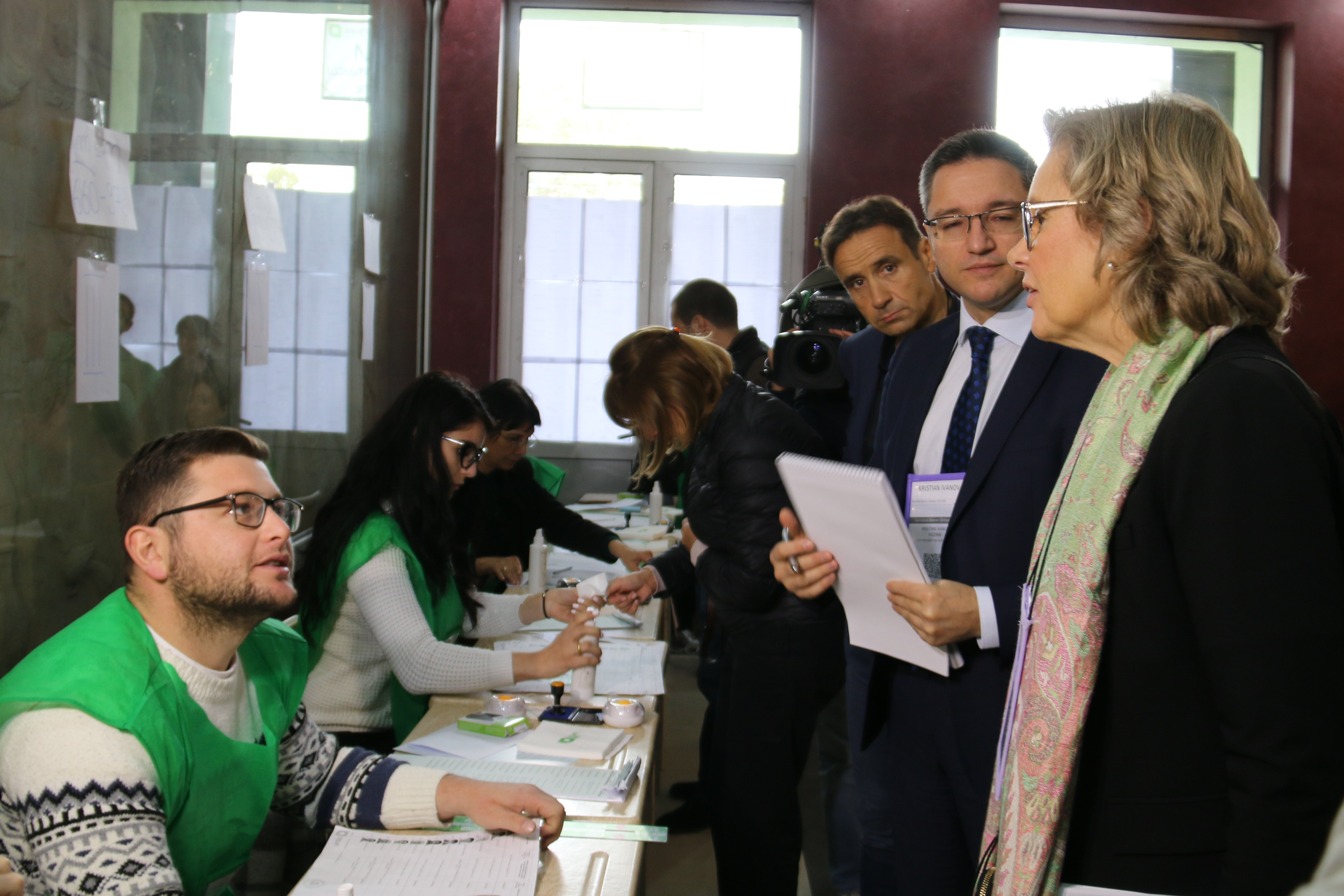 OSCE PA Election Observation Mission to Georgia, 26-29 October 2018